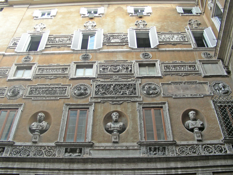 Rome, Palazzo Mattei Di Giove, court, side